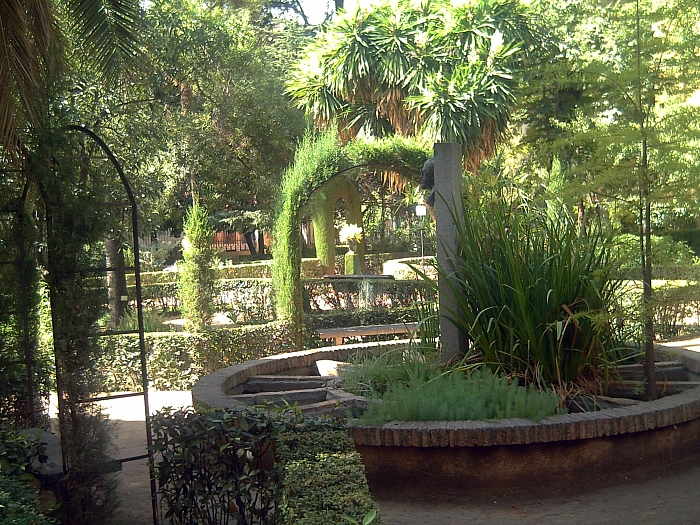 A work release by Javier martin, Jardín Botánico de la Universidad de Granada Granada, Spain 2006, October 7. A free donation to Wikipedia.